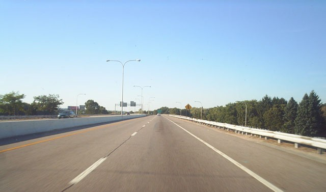 Westbound Rhode Island Route 37 in Cranston